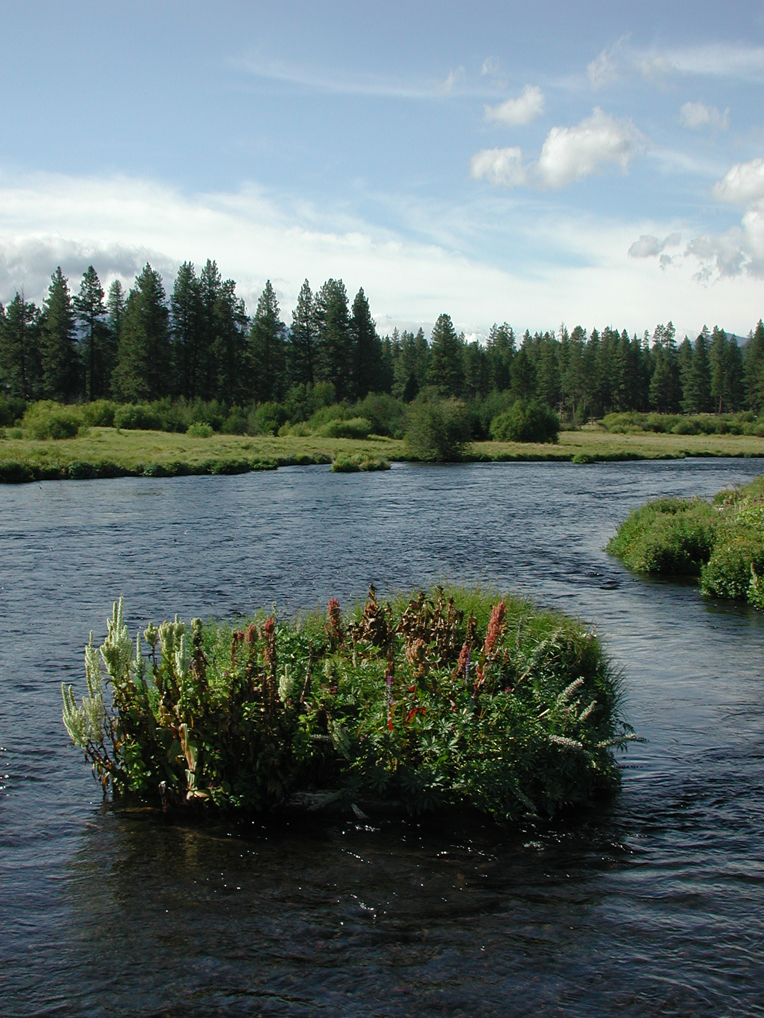 View of the Metolius River, Oregon